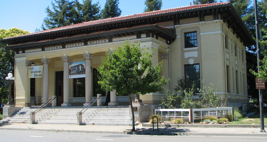 The Sonoma County Museum on 7th St., Downtown Santa Rosa, California, United States. Completed in 1910, it was originally the Post Office and Federal Building.